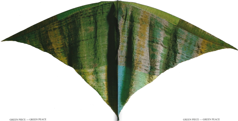 parachute silk, painted with Dupont colors, crinkled, 1994, 382x160 cm; Foto: Asy Asendorf, Zurich, Switzerland